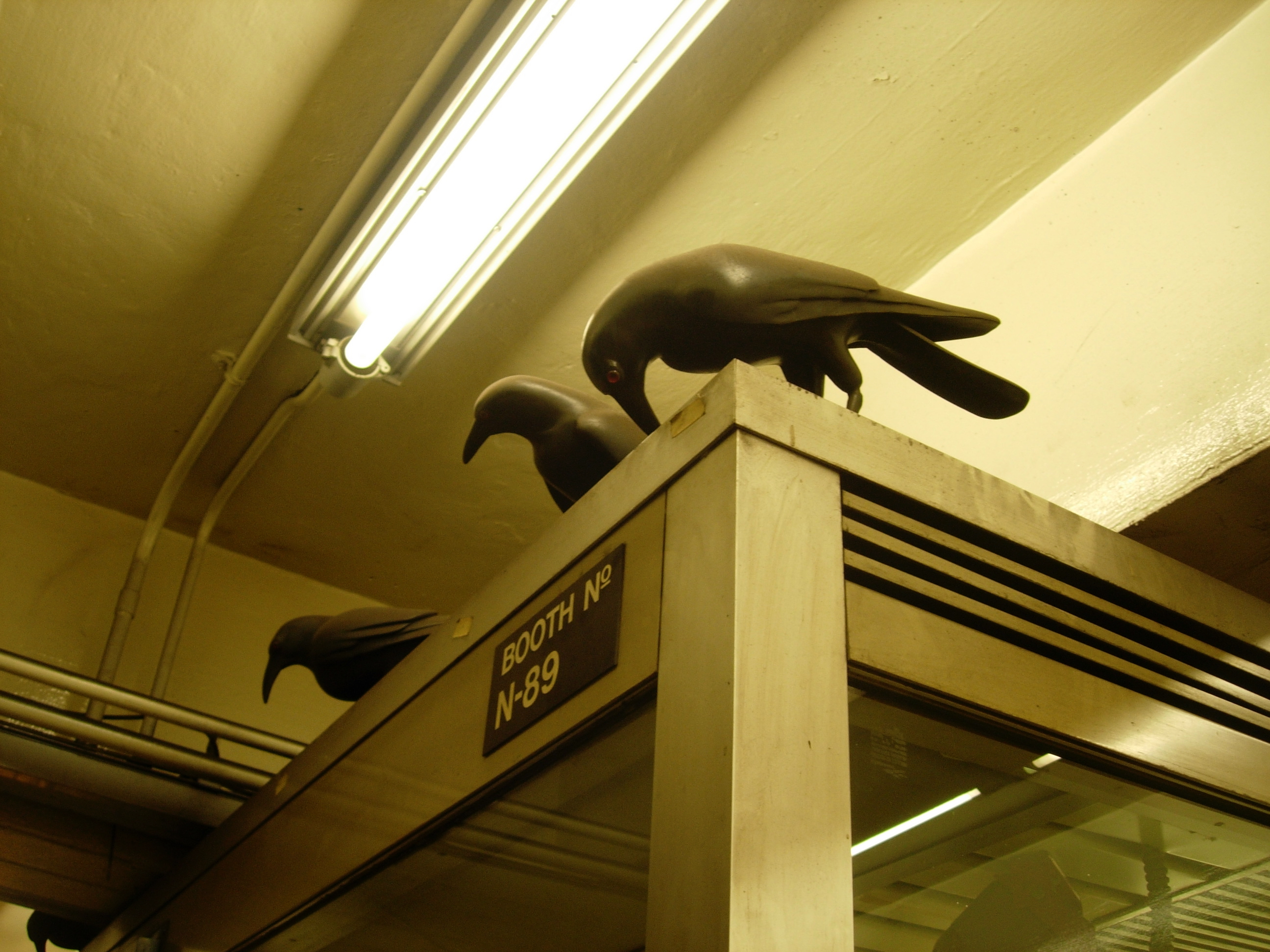 Detail of "A Gathering", a series of bronze crow sculptures placed throughout the mezzanine of the Canal Street IND station.